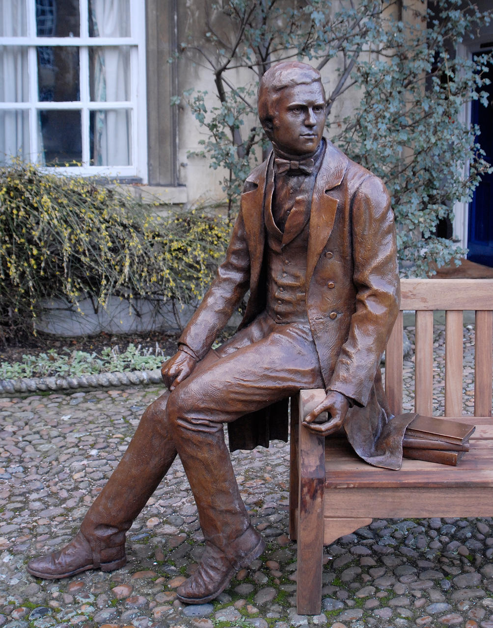 Life-sized bronze statue of the young (age 22) Charles Darwin at Christ's College, Cambridge. Sculpted by the British artist Anthony Smith. Shown here in the college's First Court, the statue is now situated in the Darwin Garden (New Court).